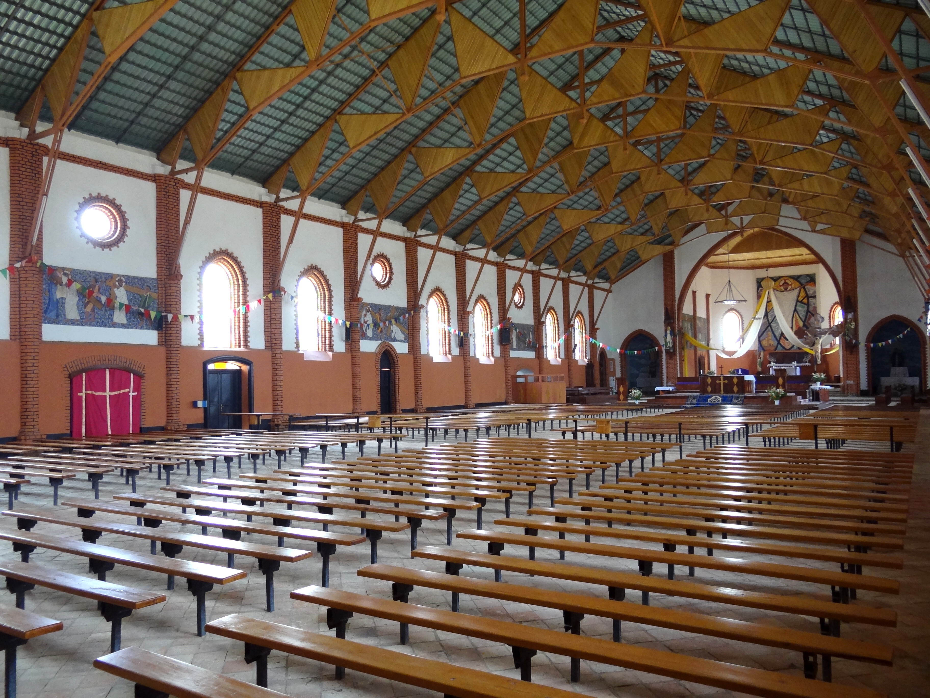 Cathedral Basilica of Our Lady at Kabgayi - Outside Muhanga-Gitarama - Rwanda